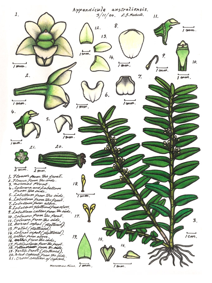 This is from a scan of one of a series of botanical illustrations Lewis Roberts, a naturalist and illustrator, is doing on the orchids of north-eastern Queensland.